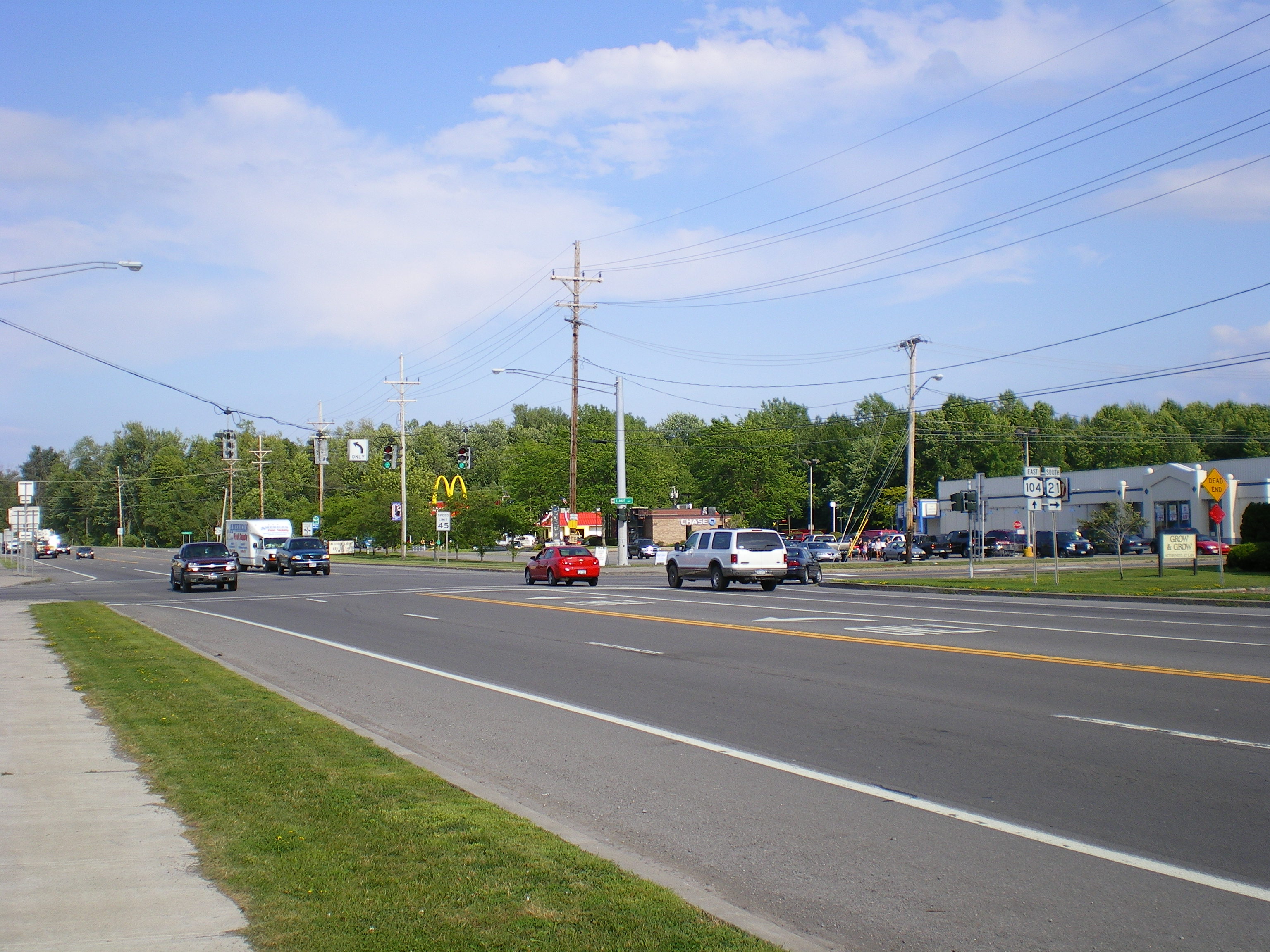 An alternate view of New York State Route 21's northern terminus at New York State Route 104 in Williamson.